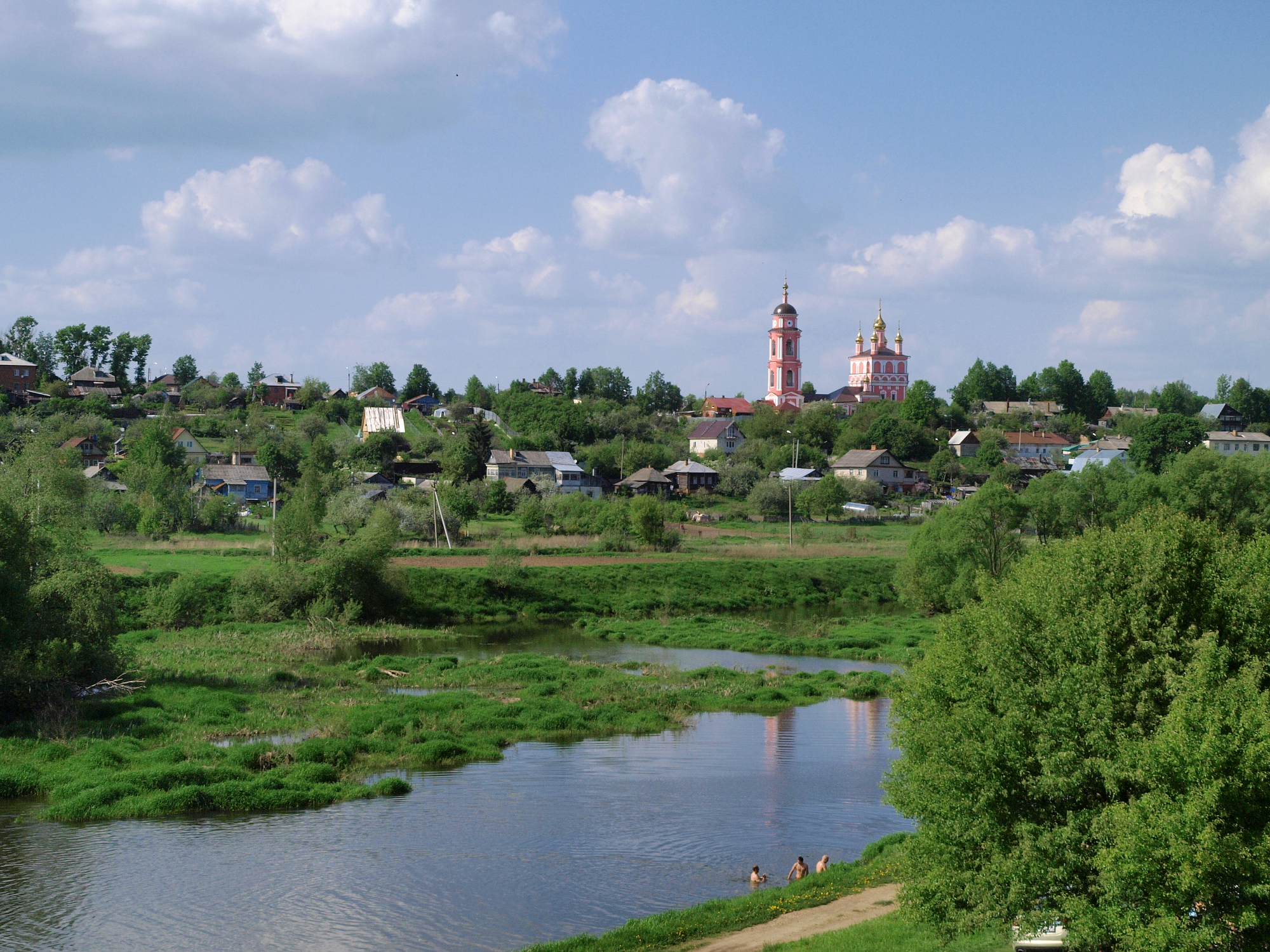 East end of Borovsk - church of Boris and Gleb. View from across the Protva river.